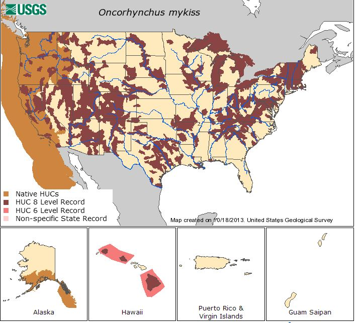 United States Range Map for Oncorhynchus mykiss, Rainbow Trout